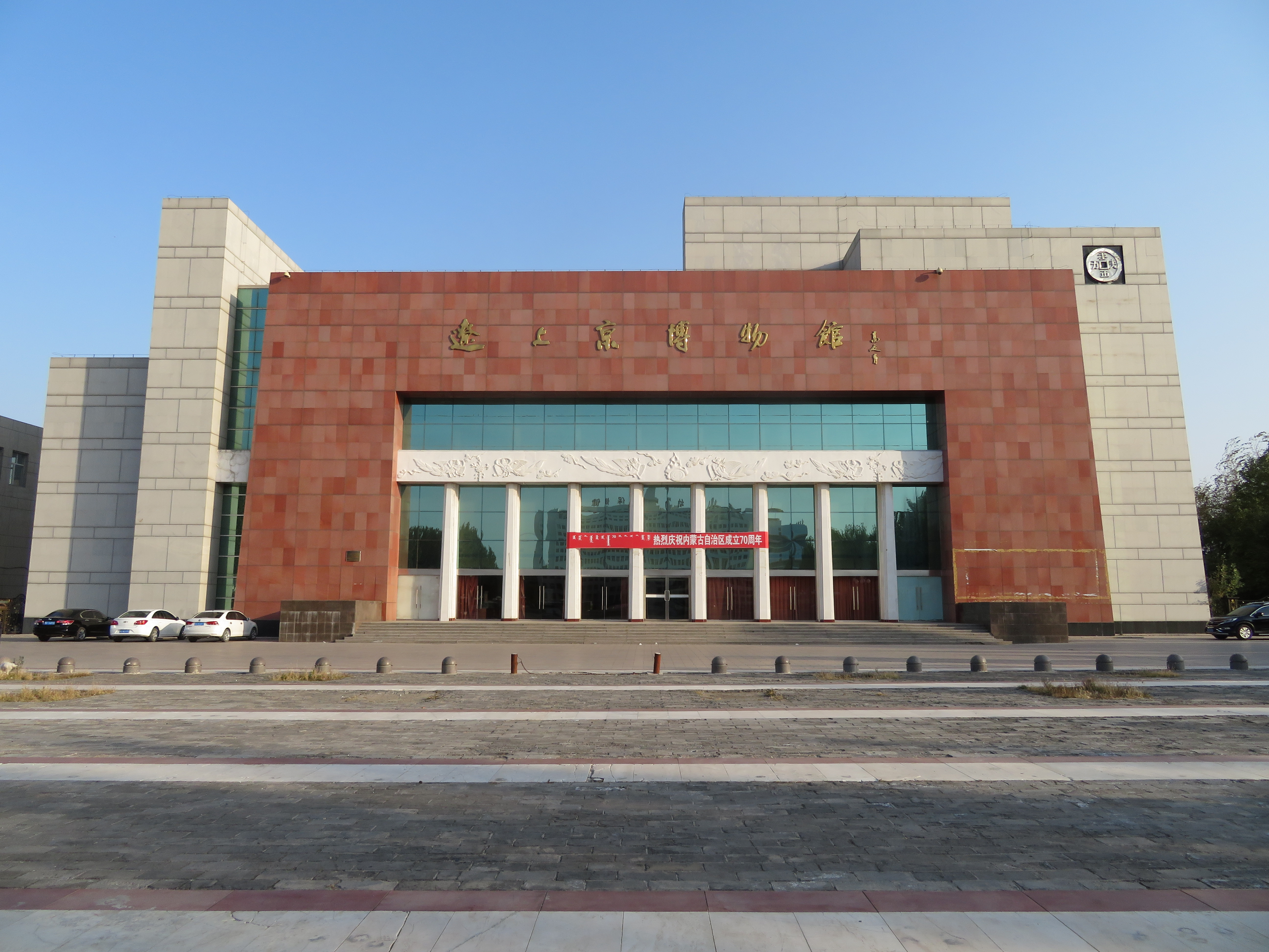 The Liao Upper Capital Museum (辽上京博物馆) in Lindong, Bairin Left Banner, Inner Mongolia, China. This is the old museum; a new museum opened on 18 August 2019 on the west side of the Liao Upper Capital site.